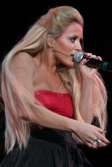 Aubrey O'Day performs at the Tacoma Dome for Jingle Bell Bash 9